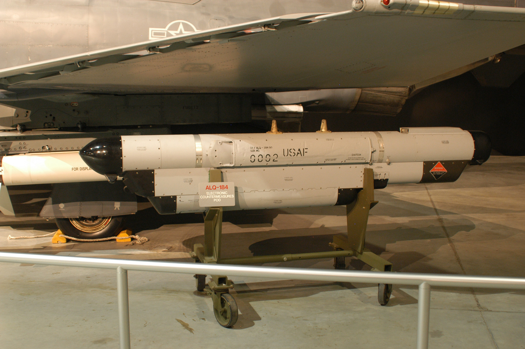 Raytheon AN/ALQ-184 jammer pod for electronic countermeasures at USAF museum.